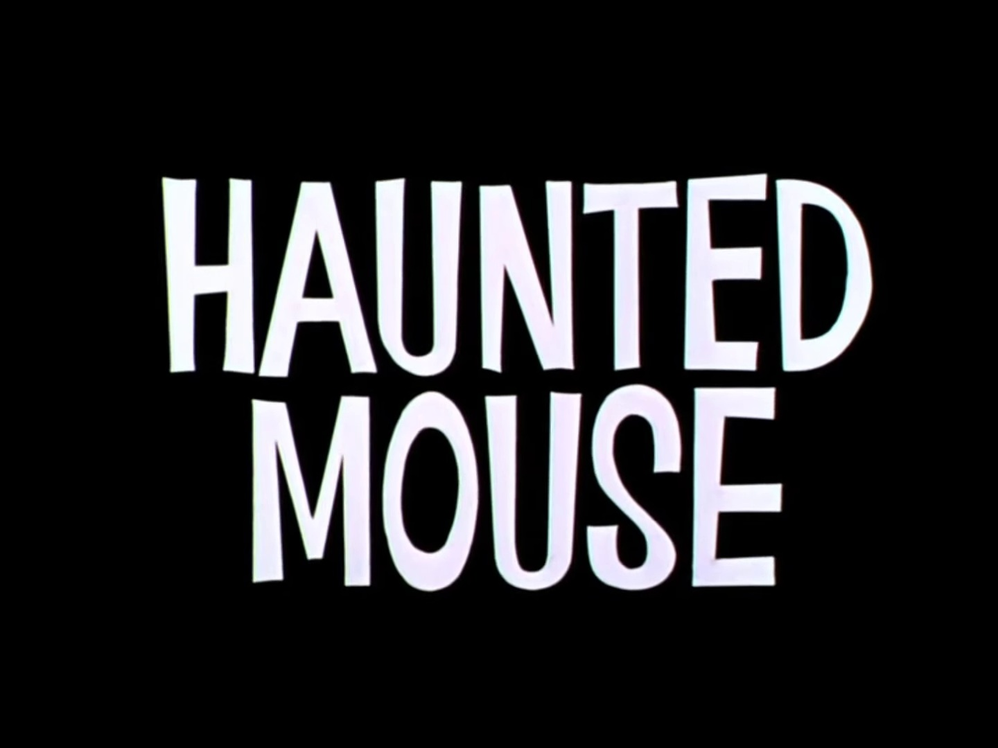 Title card of the 1964 cartoon, Haunted Mouse